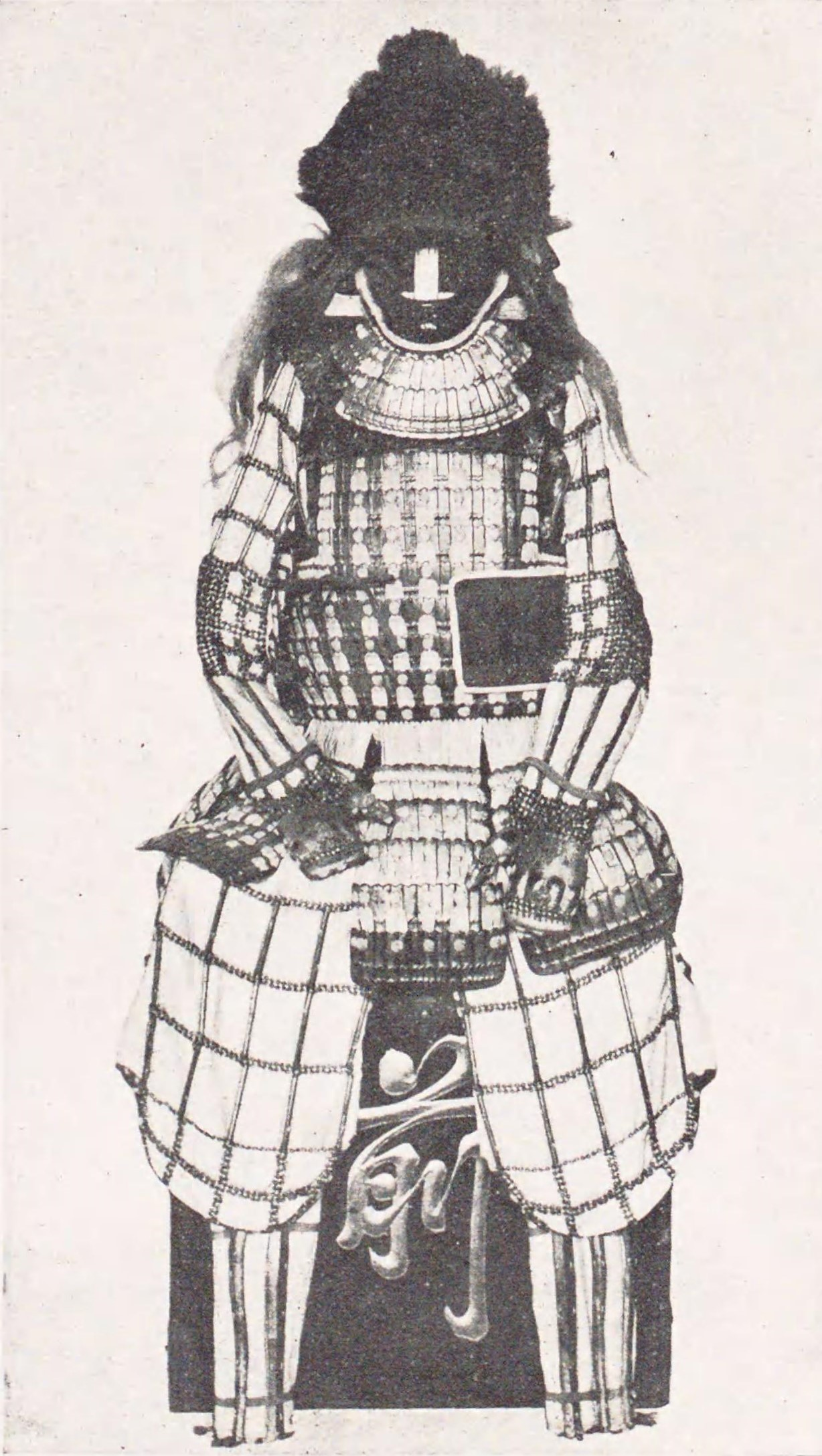 A gusoku armour Toyotomi Hideyoshi presented to Date Masamune, the collection of Sendai City Museum. An Important Cultural Property of Japan.